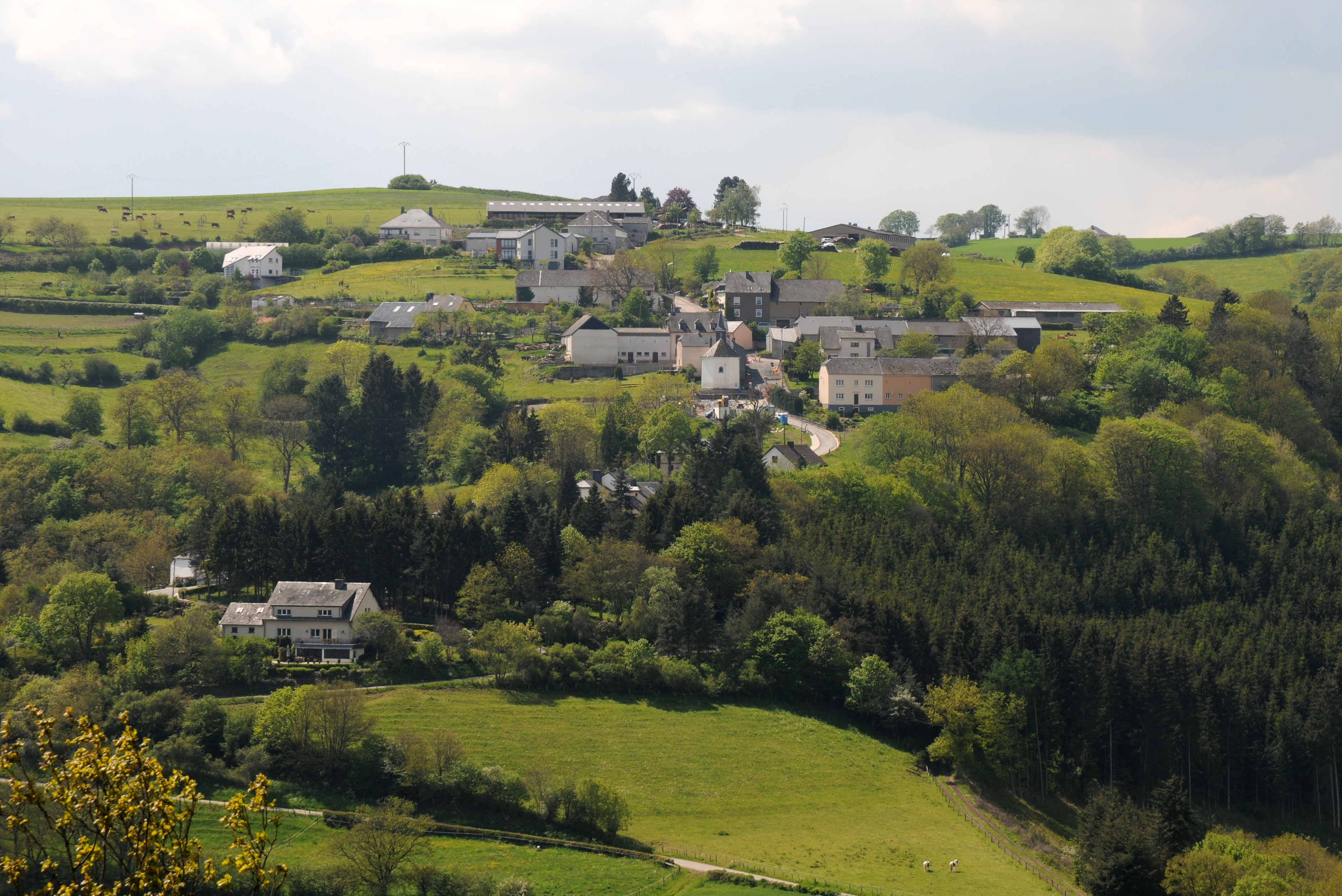 Alscheid seen from Consthum . This photograph was taken with a Nikon D300. This raster graphics image was created with Picasa